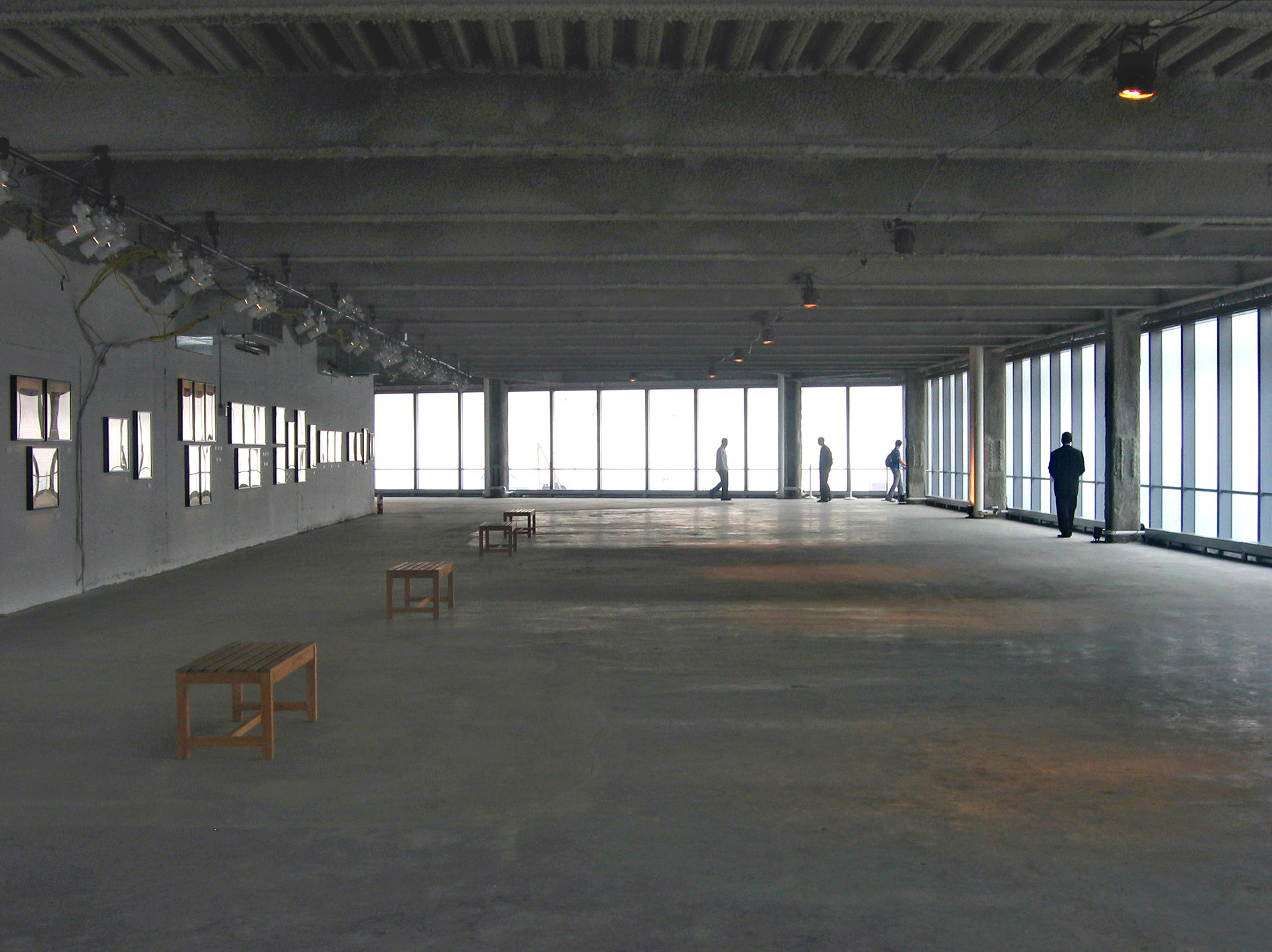 45th floor of 7 World Trade Center in September/October 2006, before being leased and modified for tenant needs.